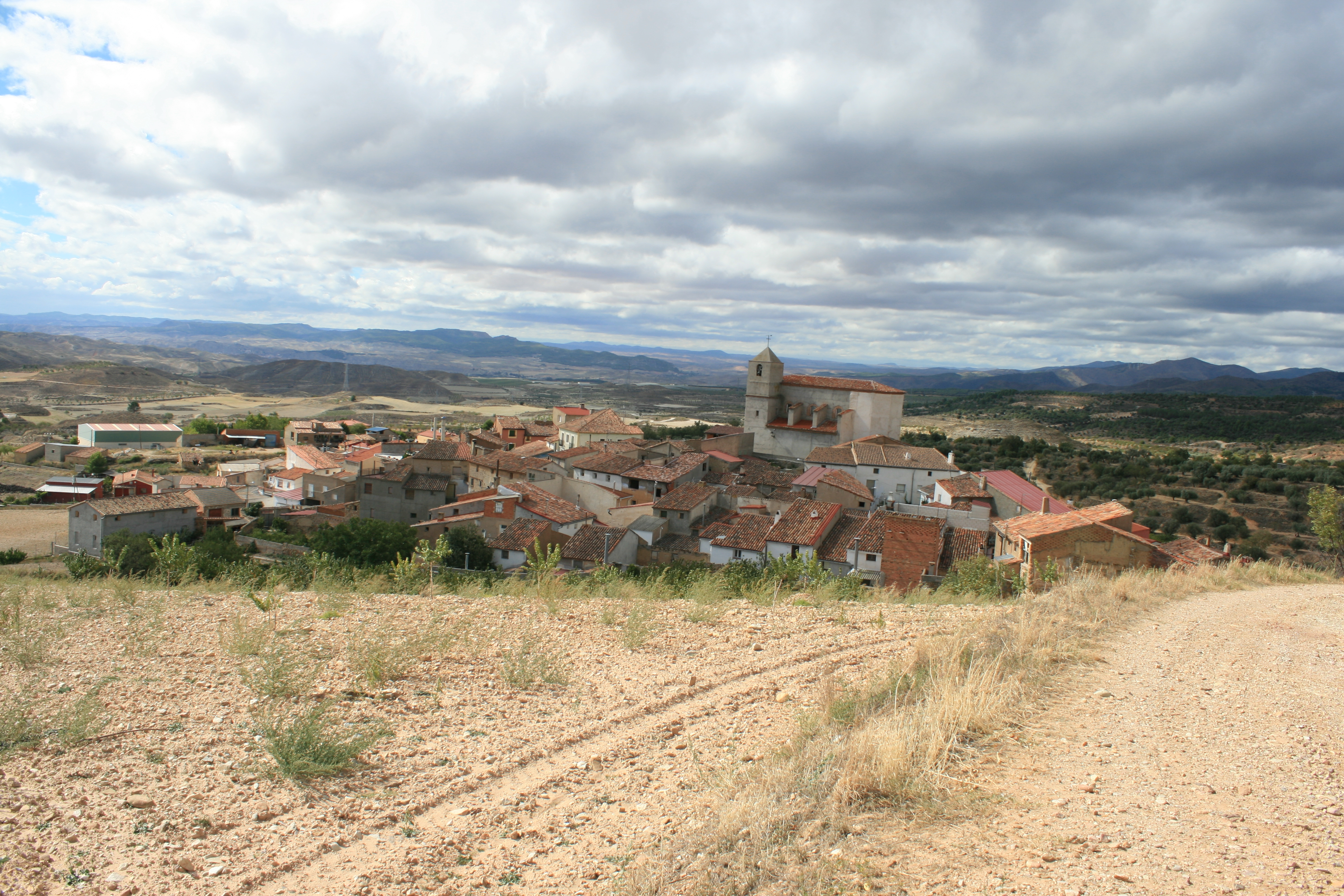 View of Sediles, Zaragoza, Spain